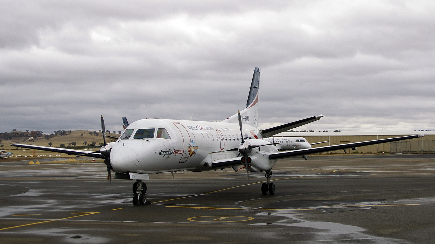 Regional Express Airlines (VH-EKD) Saab 340A located at Wagga Wagga Airport.